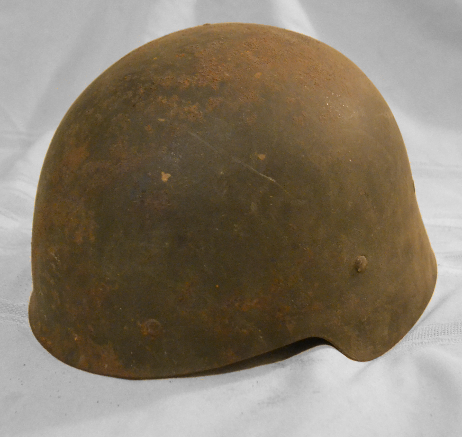 Spanish M21 Helmet